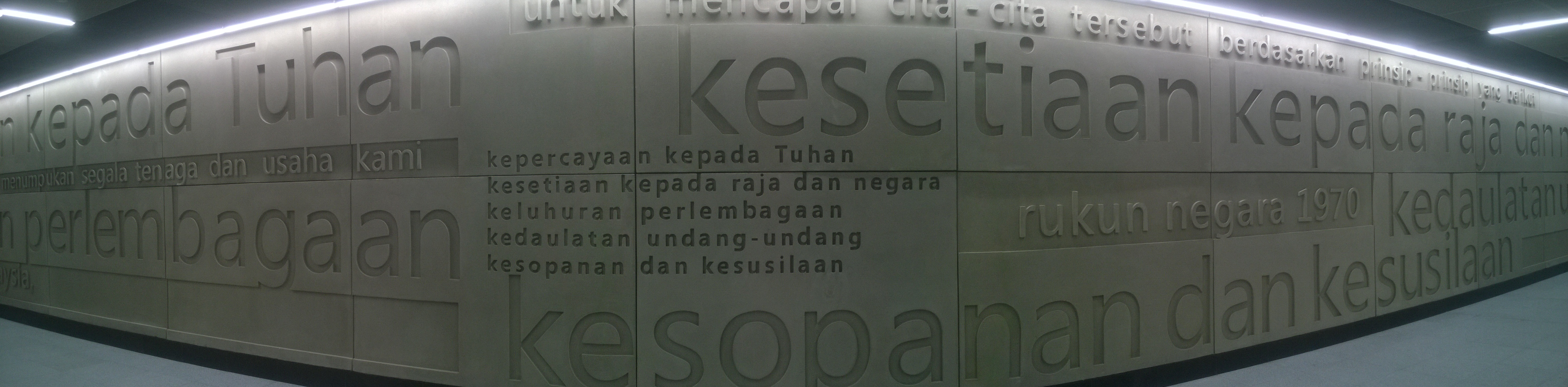 The decorative relief wall portraying the Rukun Negara at Merdeka MRT station.